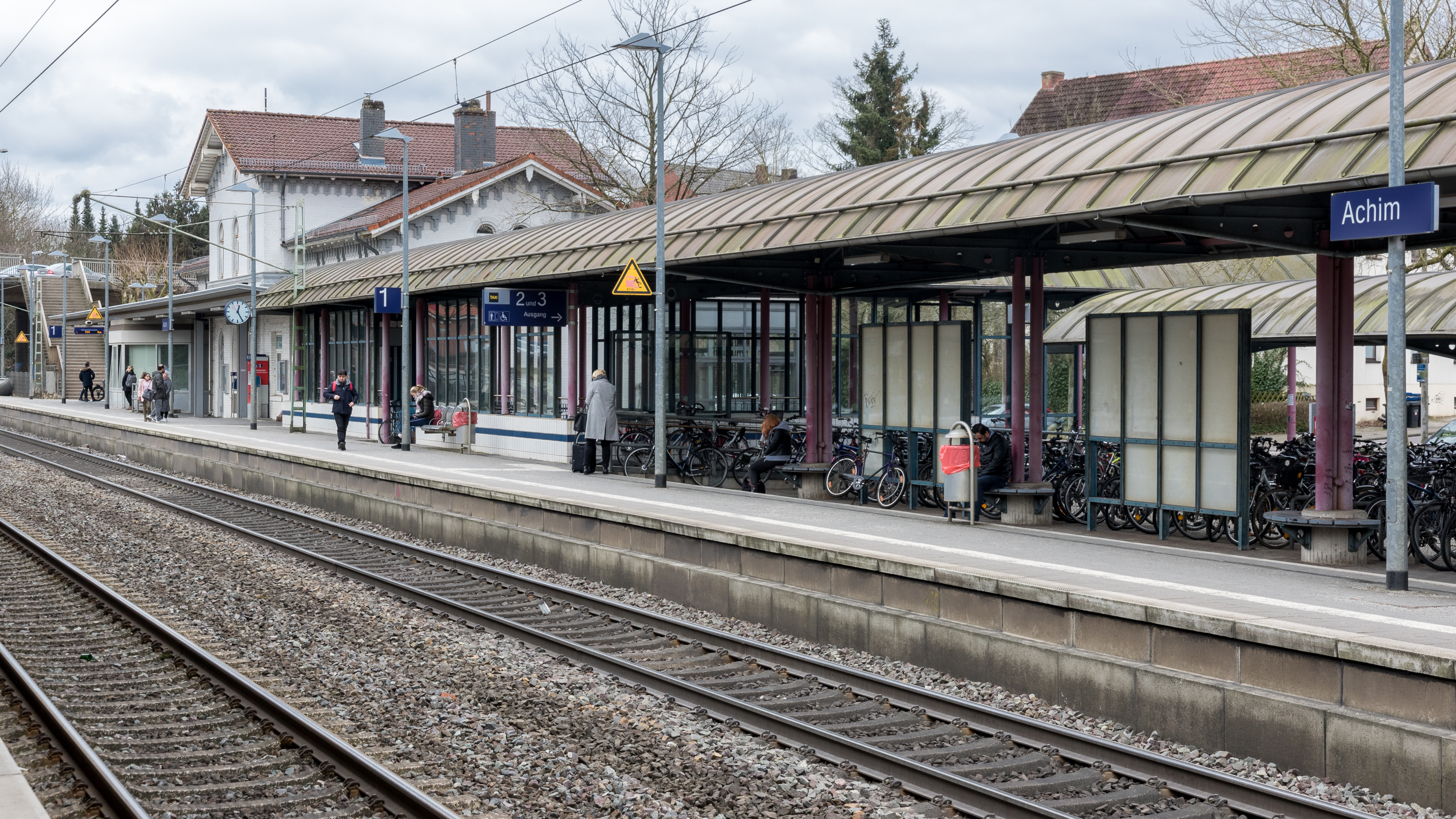 Achim railway station at the railroad line Bremen - Hannover